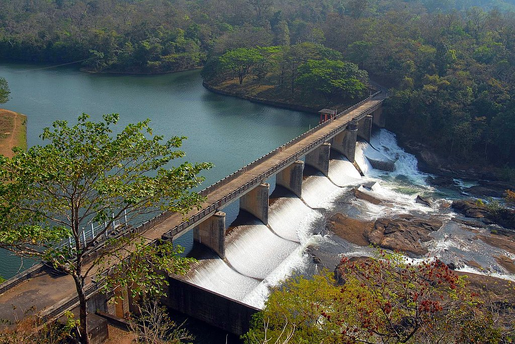 Check Dam across Kallada. View from the watch Tower